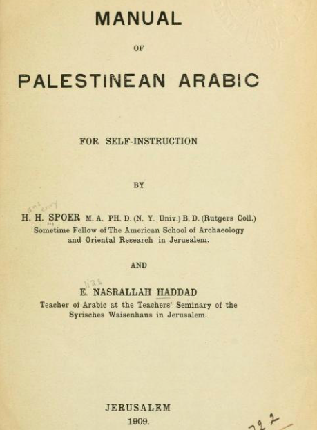 Manual of Palestinean Arabic, for self-instruction 1909